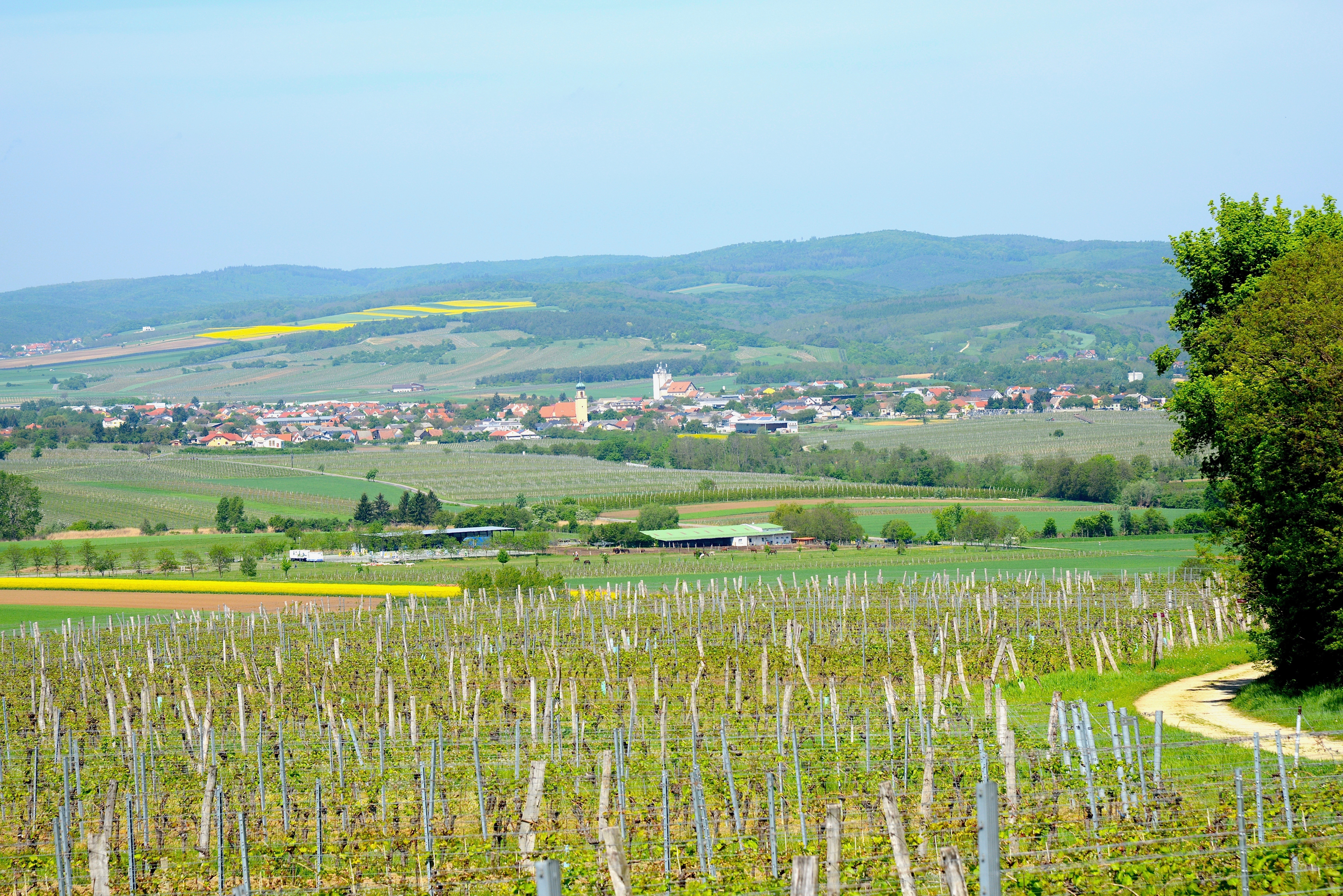 Horitschon